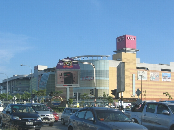 AEON Bukit Tinggi Shopping Centre in Klang, Selangor, Malaysia.